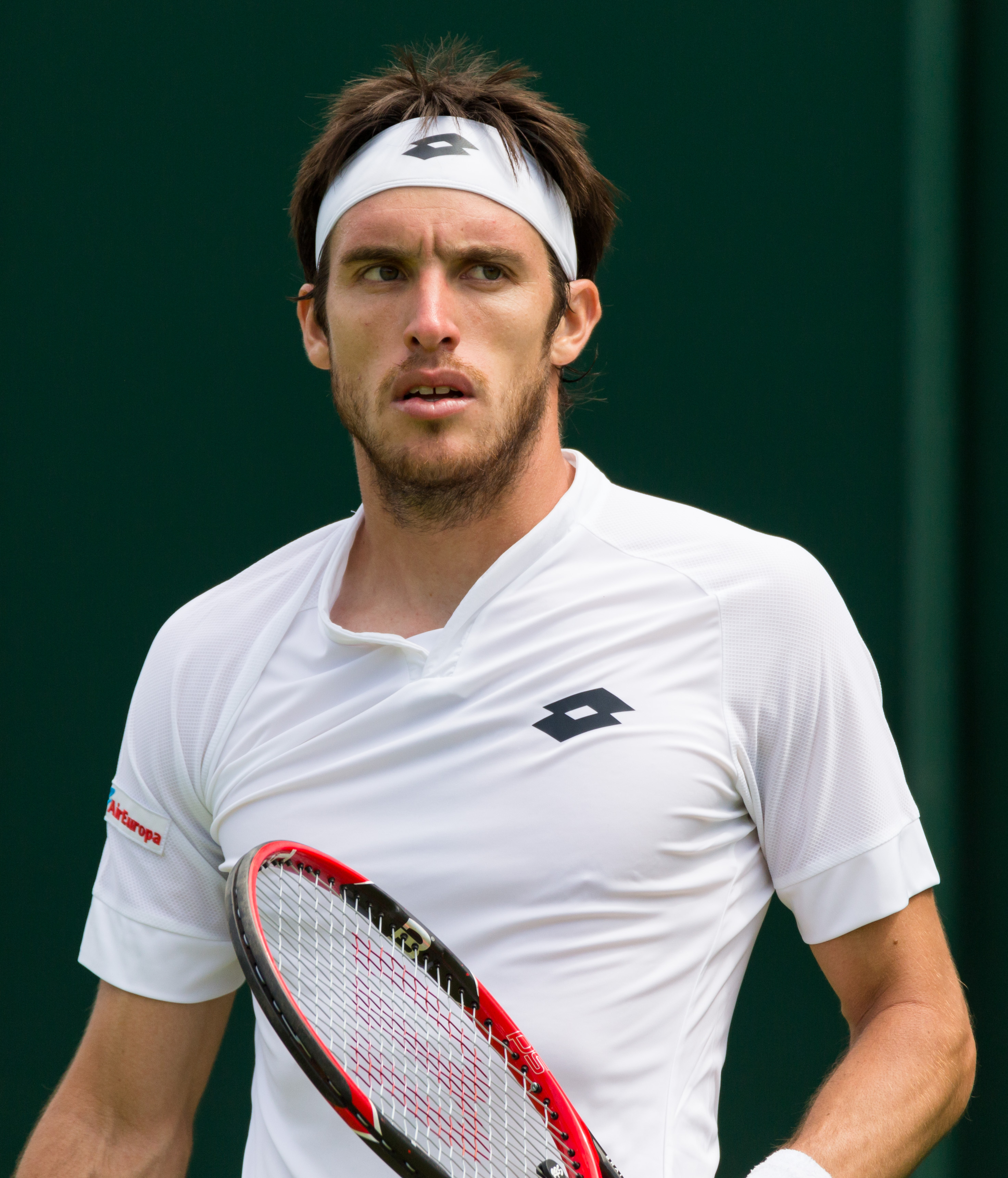 Leonardo Mayer competing in the first round of the 2015 Wimbledon Championships.